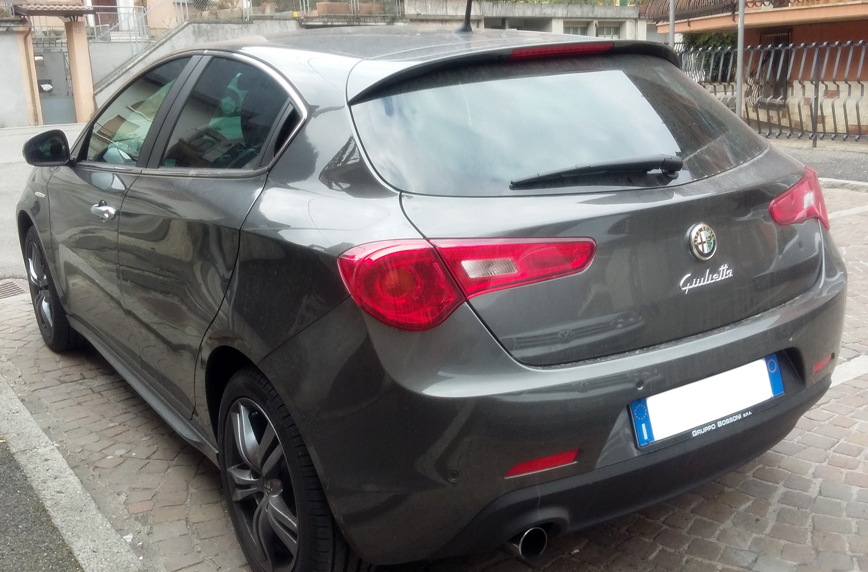 2010-present Alfa Romeo Giulietta (2013 restyling), rear